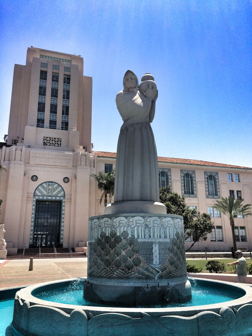 San Diego County Administration Center